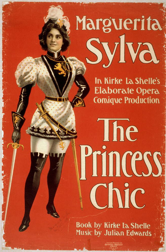 Marguerita Sylva in Kirke La Shelle's elaborate opera comique production, The Princess Chic book by Kirke La Shelle, music by Julian Edwards.